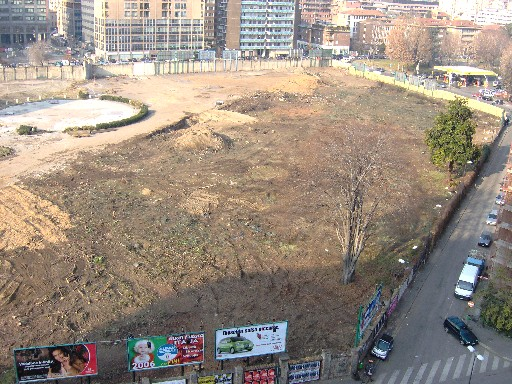 Bosco di Gioia after cutting, 1/9/06